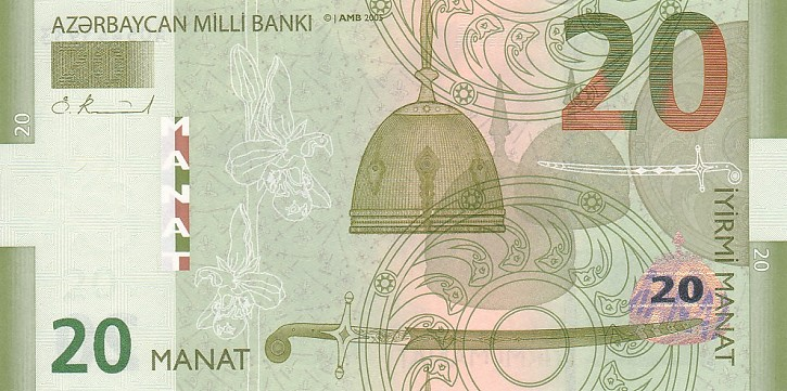 reverse of 20 AZN